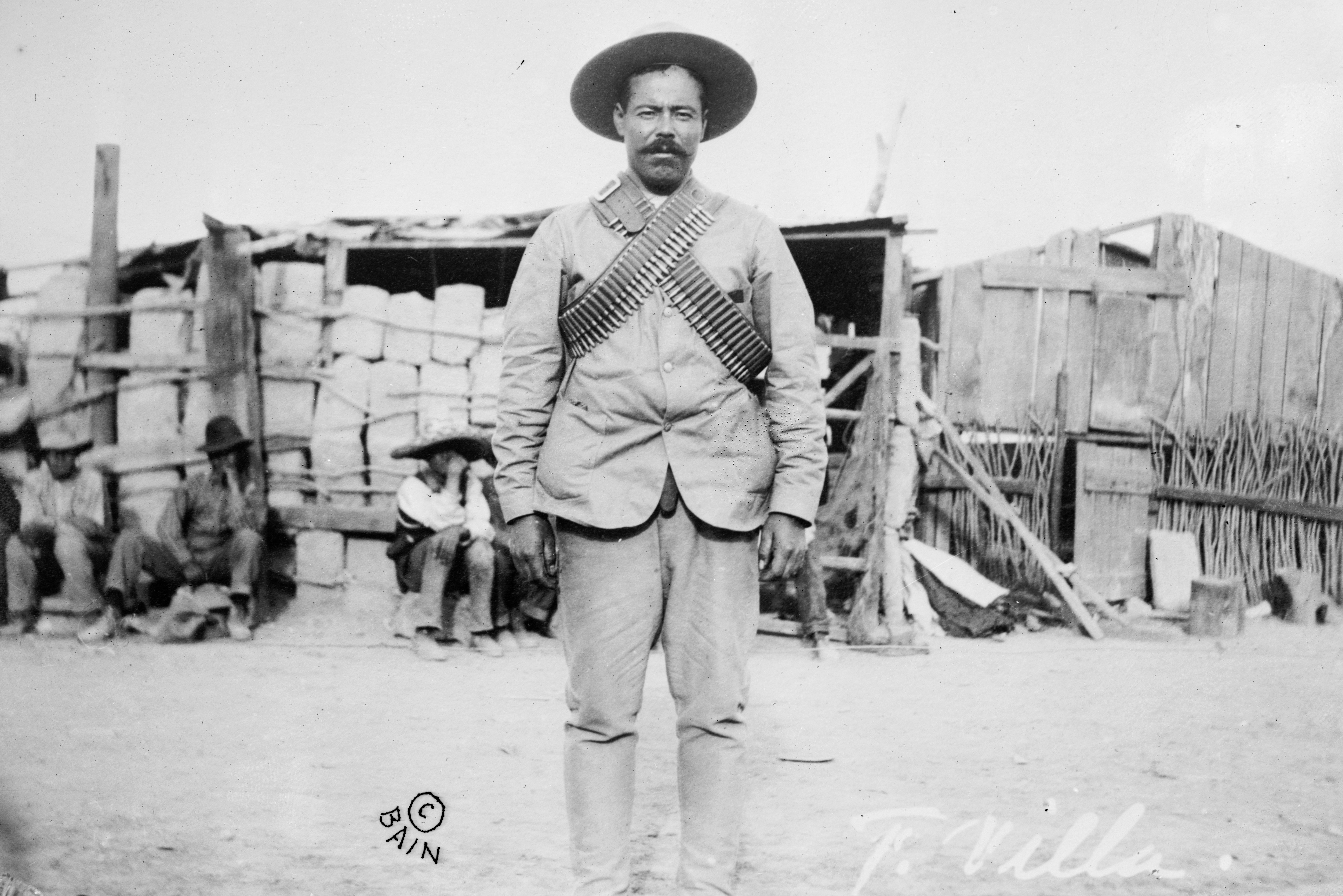 Francisco "Pancho" Villa (1877–1923), Mexican revolutionary general, wearing bandoliers in front of an insurgent camp.